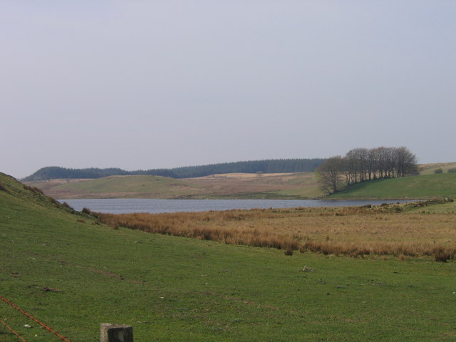 Llyn Fanod Llyn Fanod gyda fforest coniferaidd yn y pellter / Llyn Fanod with a coniferous forest in the distance.